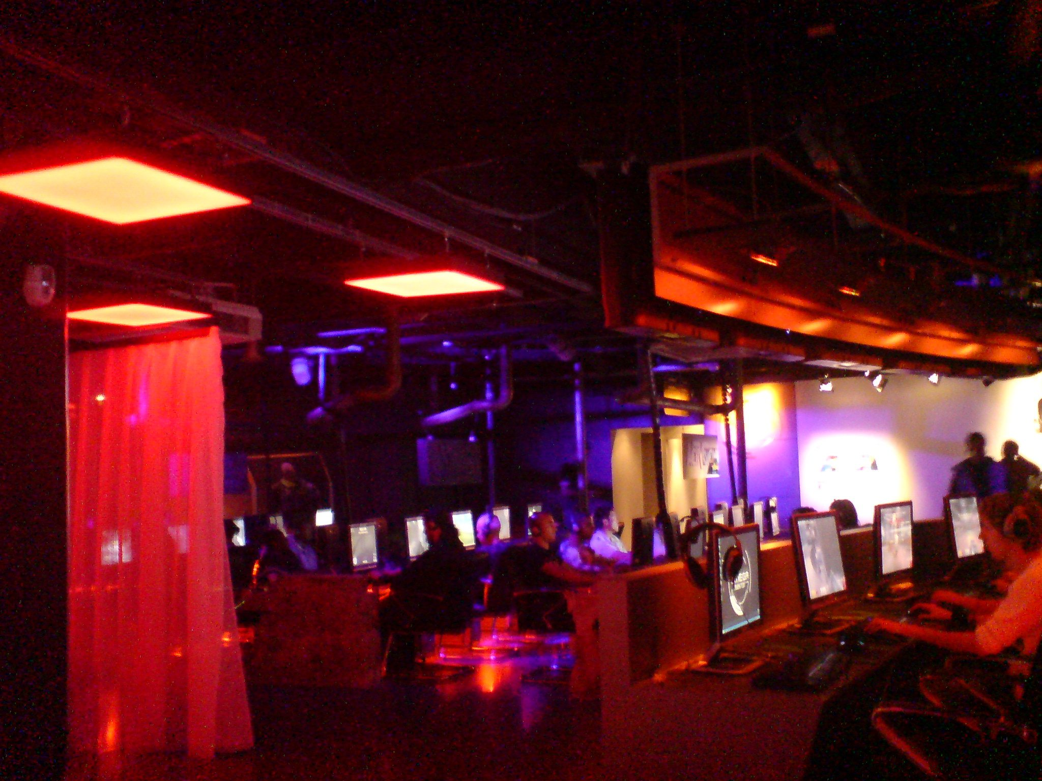 Omega Sektor, in Birmingham, United Kingdom. Taken from the Tournament Stage looking to the right. I took the pic with my SEk800i cam, sorry for the bad quality but when i use the flash the pic comes out really dark so i had to take it with no flash (and now its not nice), feel free to upload a better pic.